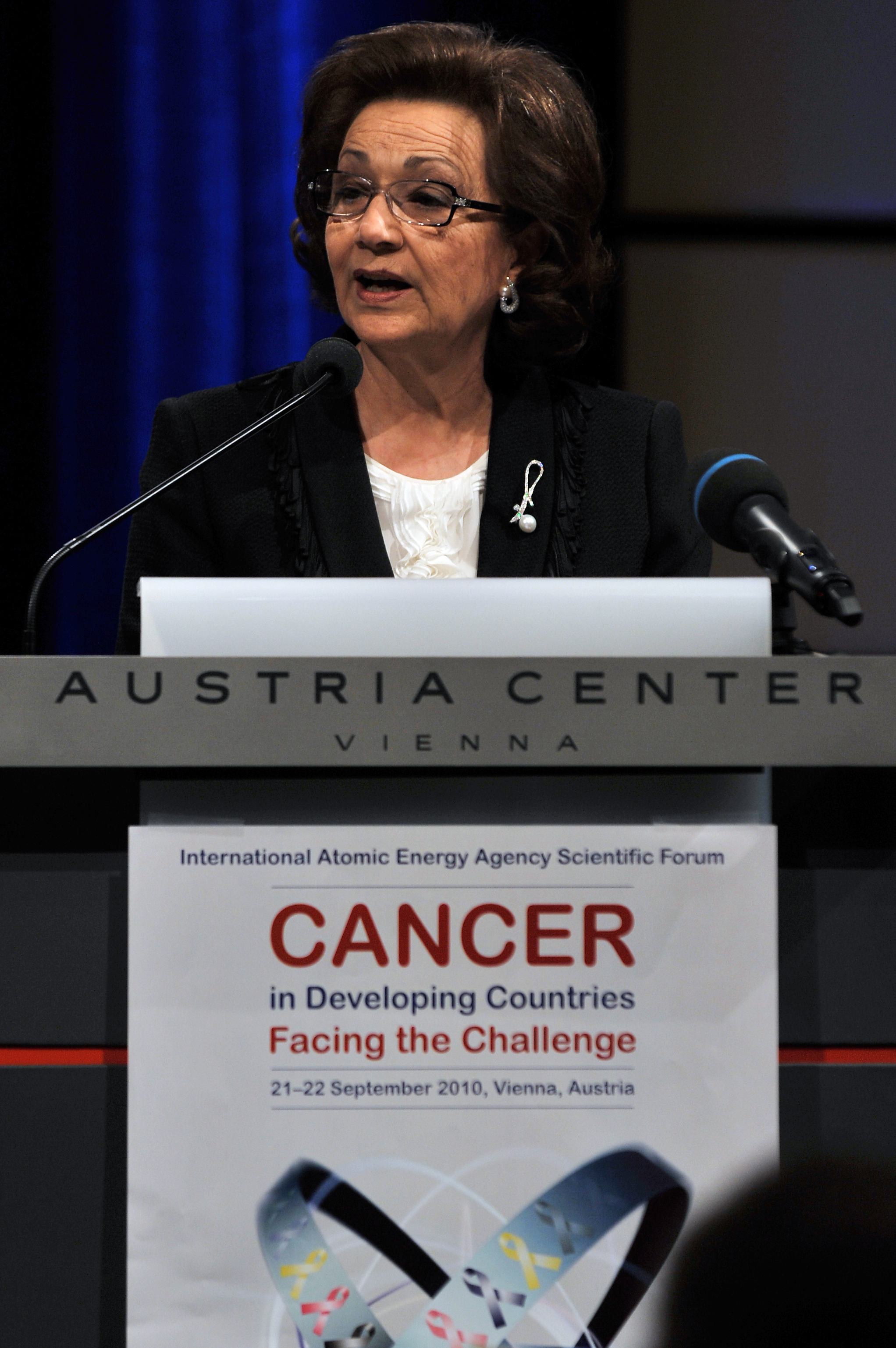 Scientific Forum opening session at the IAEA 54th General Conference. Vienna, Austria, 21 September 2010. Cancer in Developing Countries - Facing the Challenge Mrs. Susanne Mubarak, First Lady of Egypt, delivers her speech at the opening session of the Scientific Forum during the IAEA 54th General Conference. Copyright: IAEA Imagebank Photo Credit: Dean Calma/IAEA